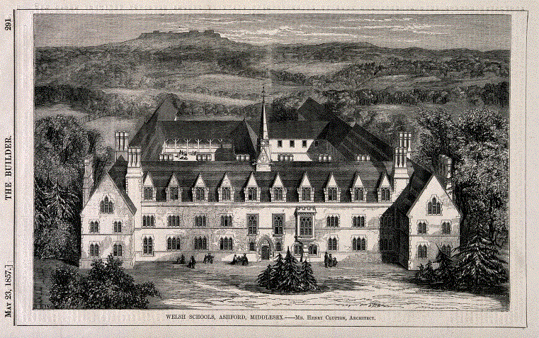 Bird's-eye view of the Welsh school and its grounds, Ashford, Middlesex. Wood engraving by C.W. Sheeres, 1857, after B. Sly after H. Clutton.